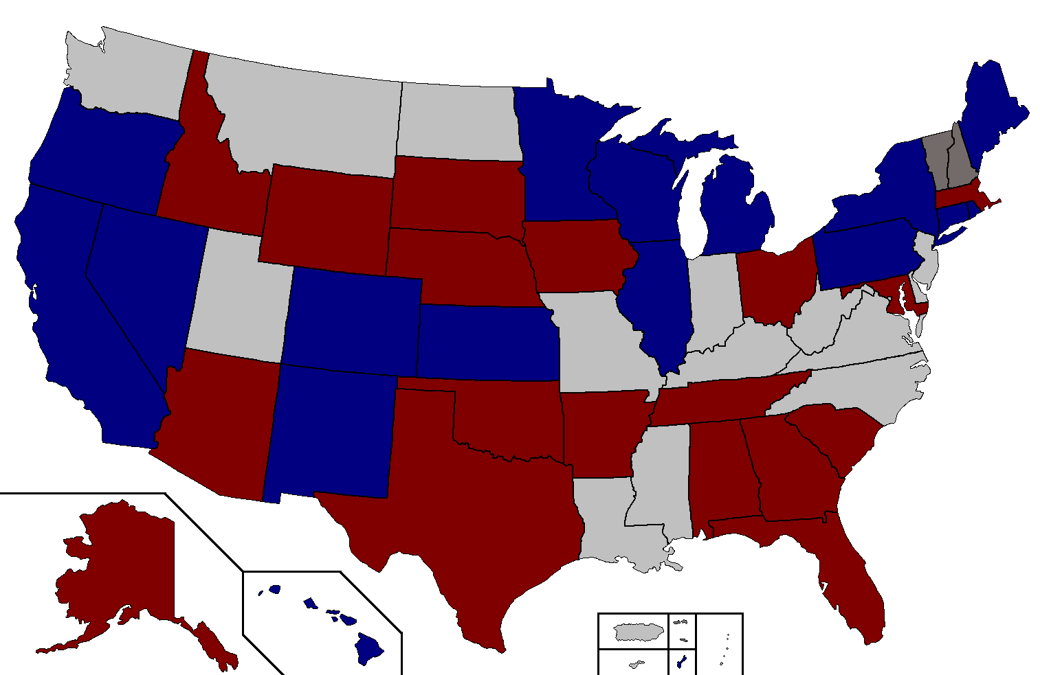 United States 2022 gubernatorial elections, by party of incumbent Democratic incumbent Republican incumbent Undetermined incumbent No election